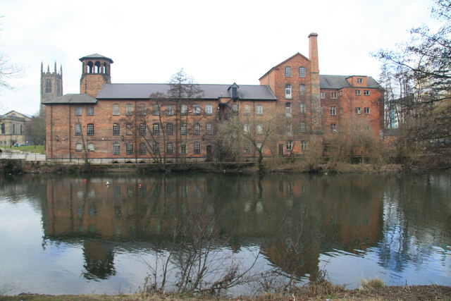 Derby Industrial Museum - The Silk Mill. This was built in 1718 by George Sorocold for John Lombe to throw silk by the secret process smuggled out of Italy. Only the stone arches in the undercroft and the tower are original. The mill was substantially rebuilt following fires in 1826 and 1910. It is claimed to have been Britain's first factory. It now houses the Industrial Museum but that is to close for an unknown period at the end of March 2011.